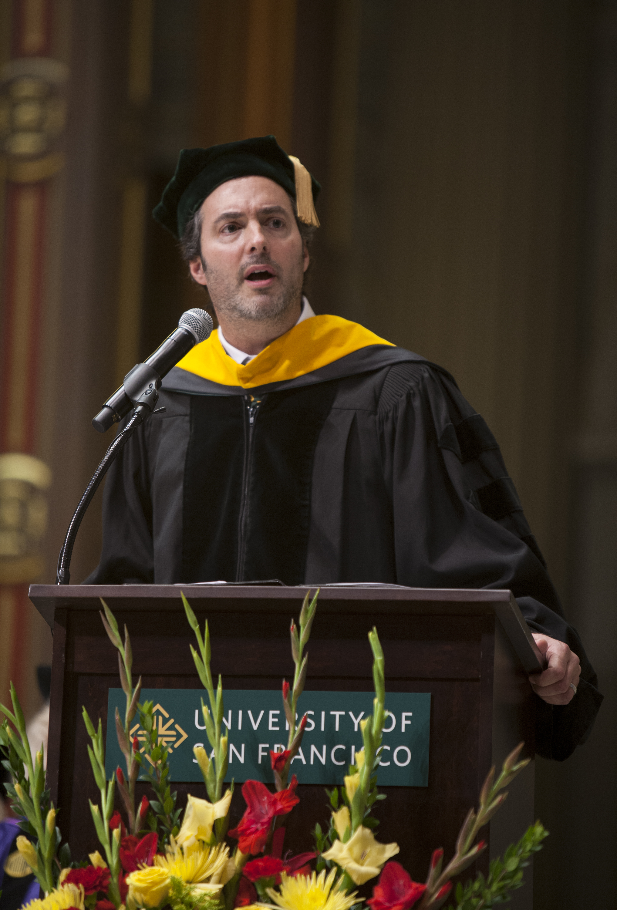 Fisher delivering University of San Francisco school of management commencement (Photo/Frankie Frost)